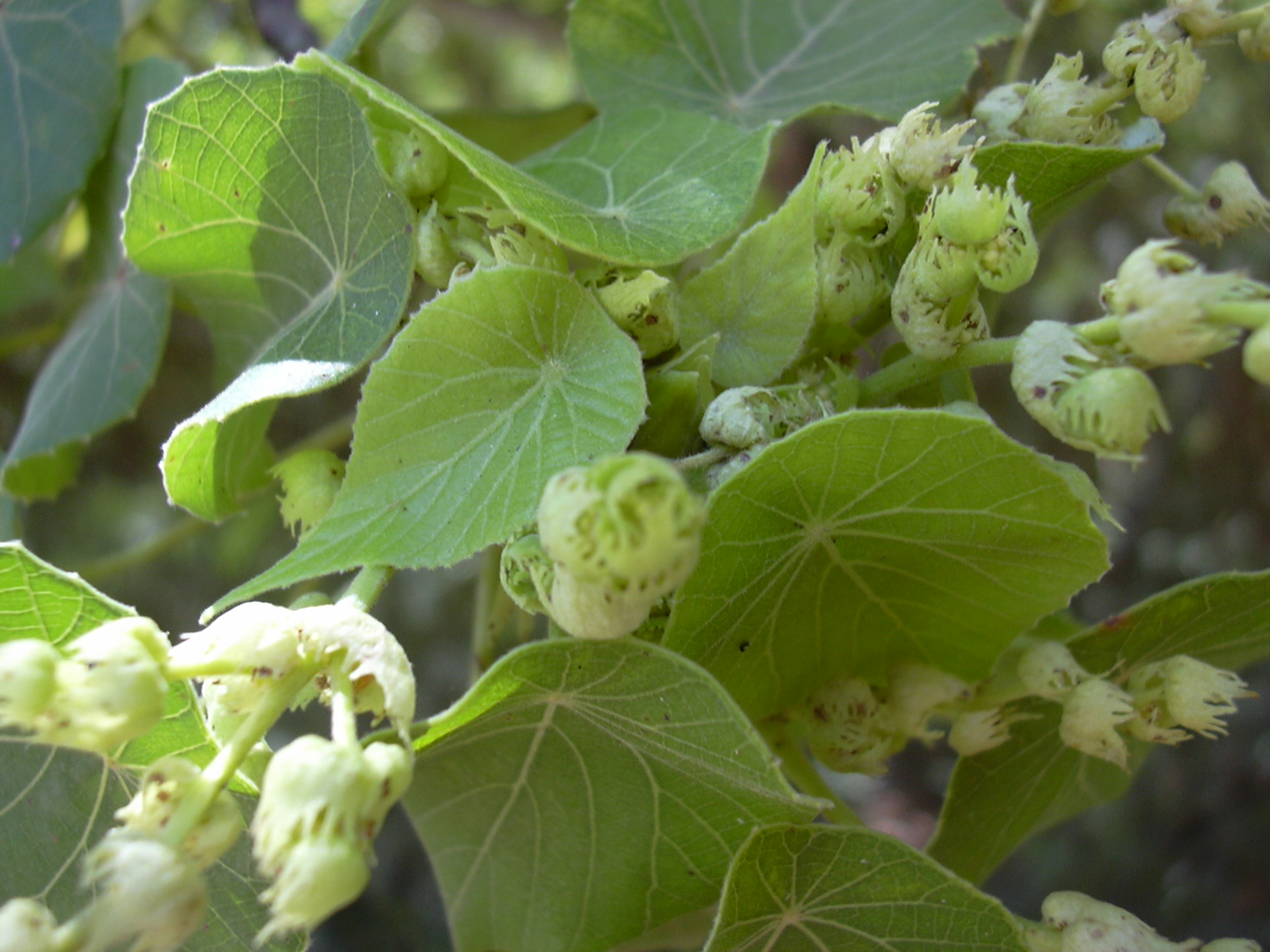 Macaranga tanarius (leaves and flowers). Location: Oahu, Malaekahana